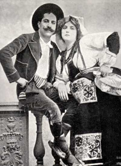 Photograph of Clara Ward and Rigo Janczi in ethnic costume from a German-made post card. About 1905. Owned by and scanned and retouched by Tim Ross, who releases all rights.